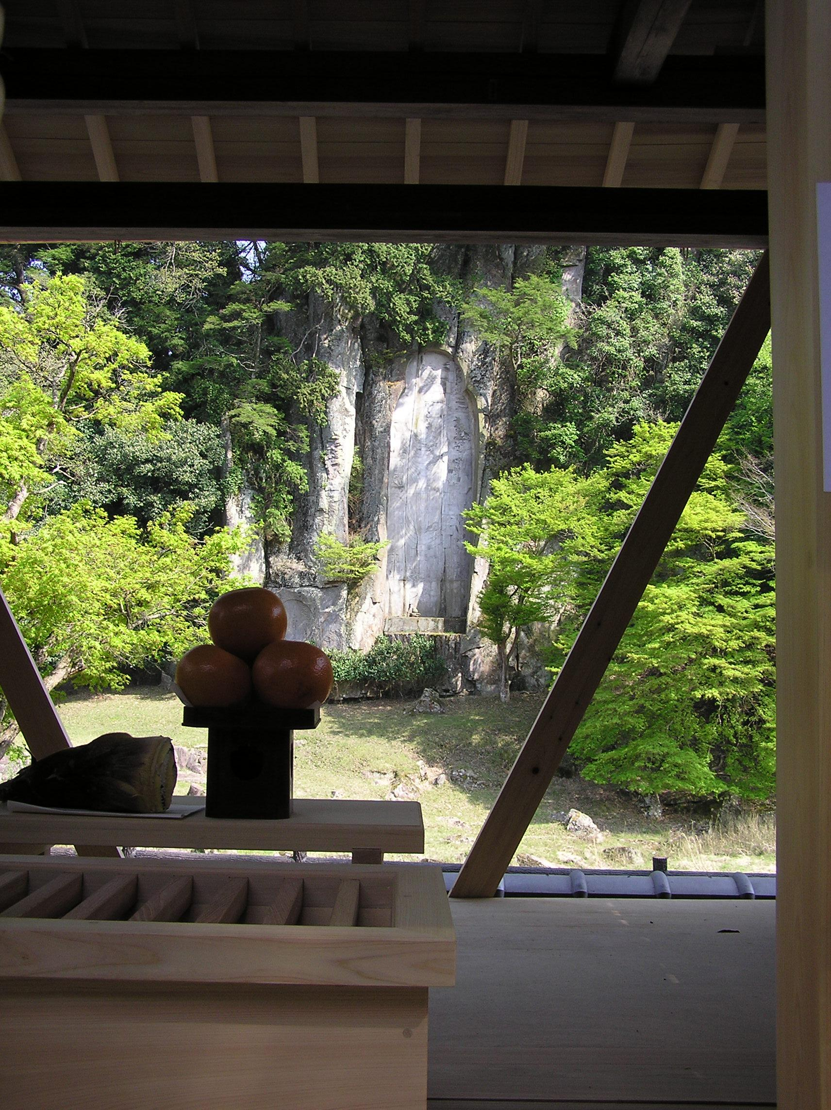 Stone sculpture viewed across the Uda river, from Ōno-ji